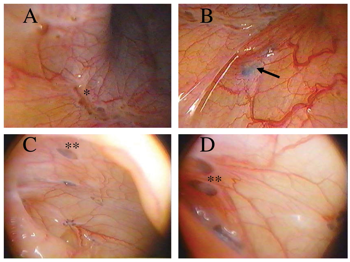 Laparoscopic Evaluation of Lesions in a Baboon Model of Experimental Endometriosis. Visualization of the peritoneal cavity by laparoscope demonstrated the presence of powder burns (identified by a single asterisk) and blue (identified by the arrow) and chocolate lesions (identified by the double asterisks) within three (A,B) and six (C,D) months of induction of disease. Julie M. Hastings, Asgerally T. Fazleabas: A baboon model for endometriosis: implications for fertility. Reproductive Biology and Endocrinology 2006 4(Suppl 1):S7